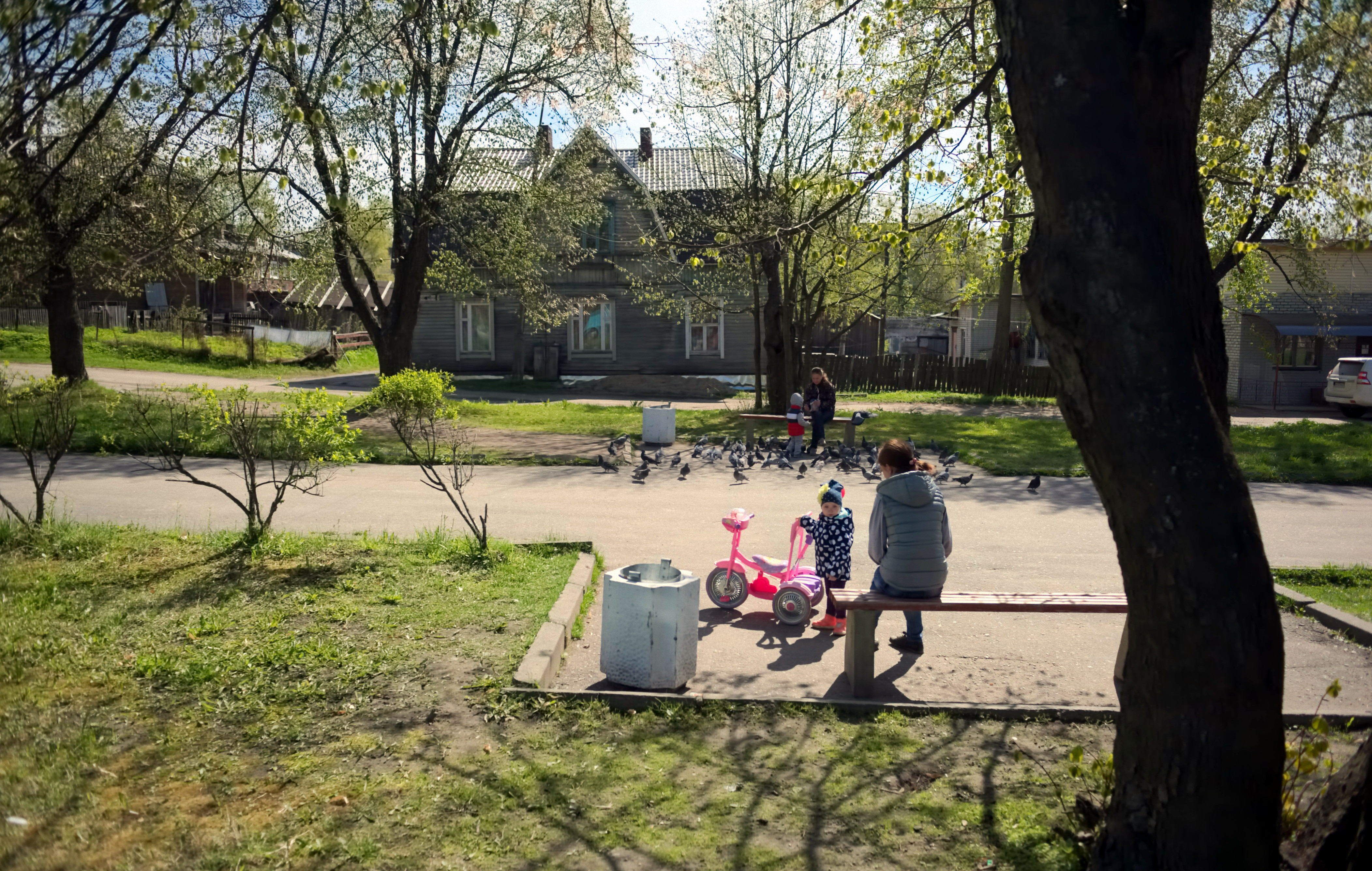 Lakhdenpokhya / Lahdenpohja May 14th 2016